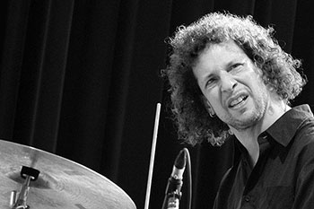 Ian Froman